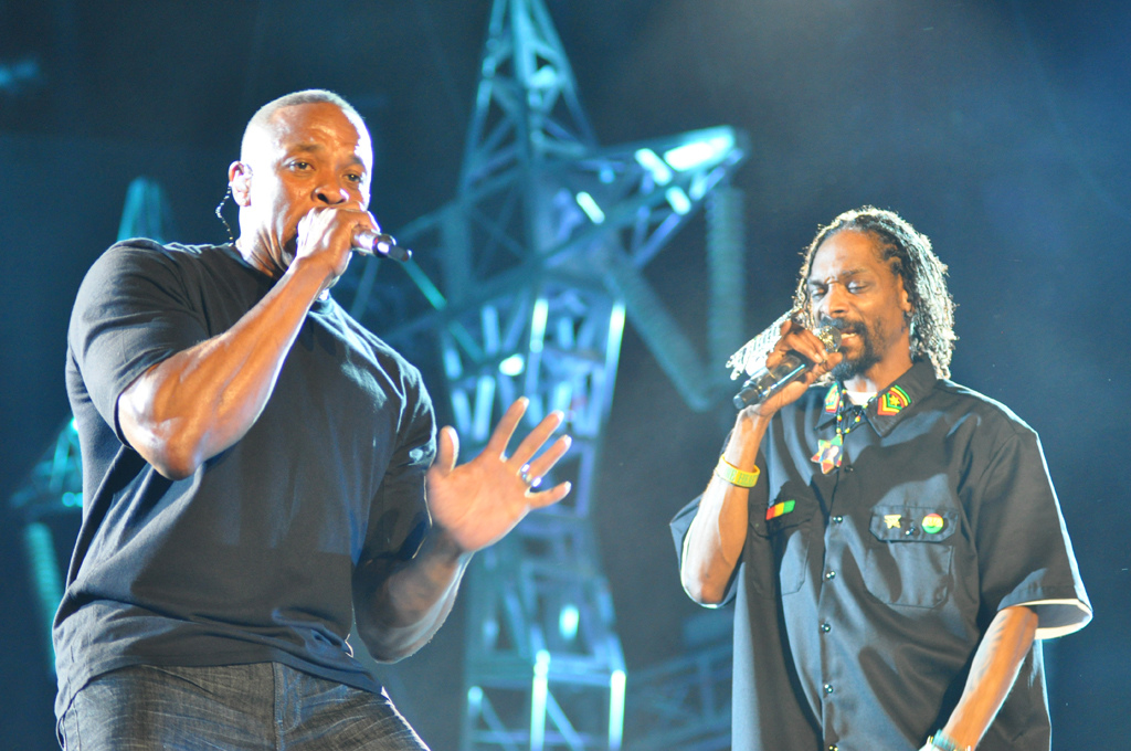 Snoop Dogg and Dr. Dre, Coachella 2012, Day three, Sunday, April 22, 2012